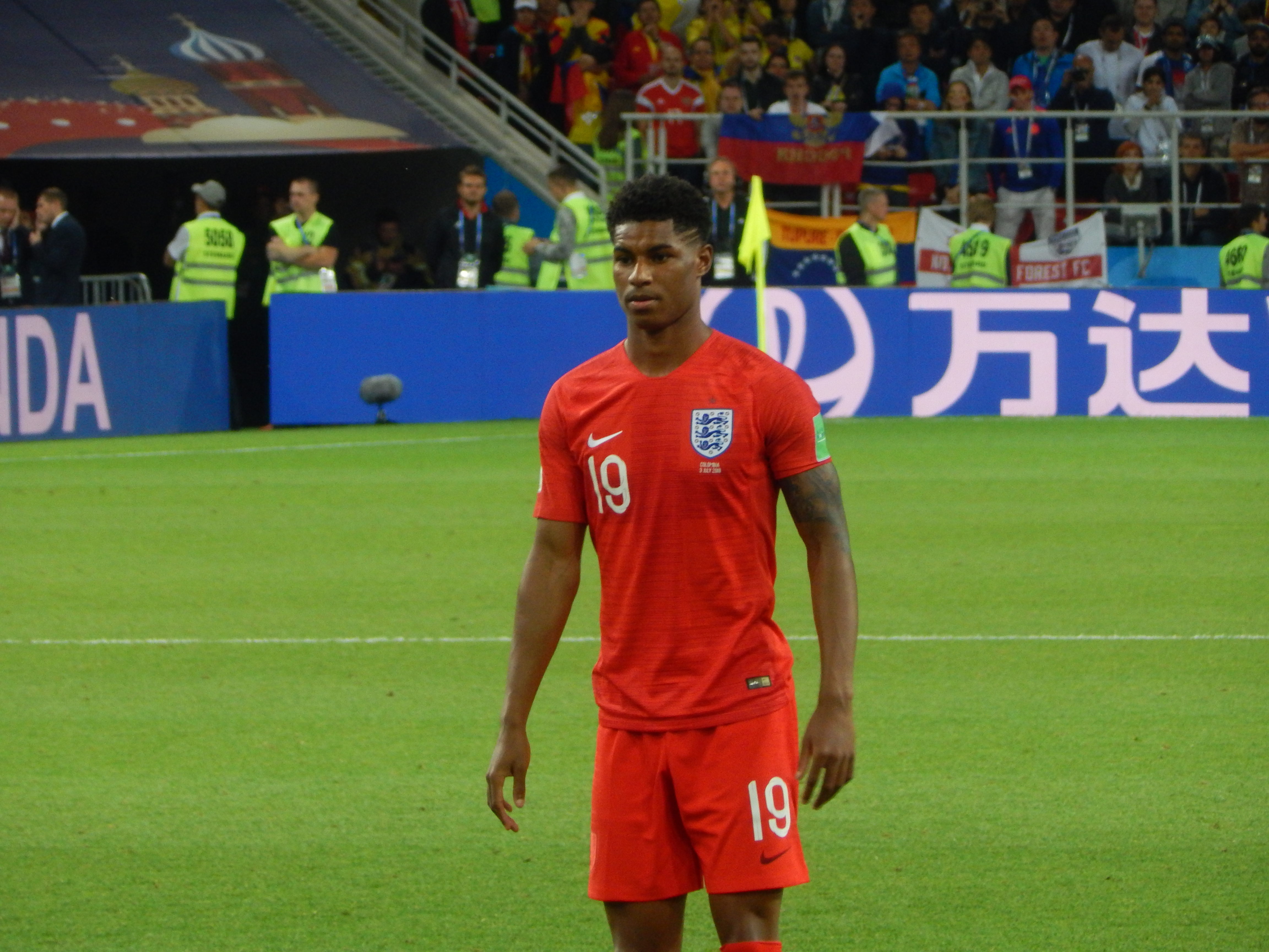 FIFA World Cup 2018, Round of 16, Colombia vs. England. Marcus Rashford before his penalty kick during the shoot-out